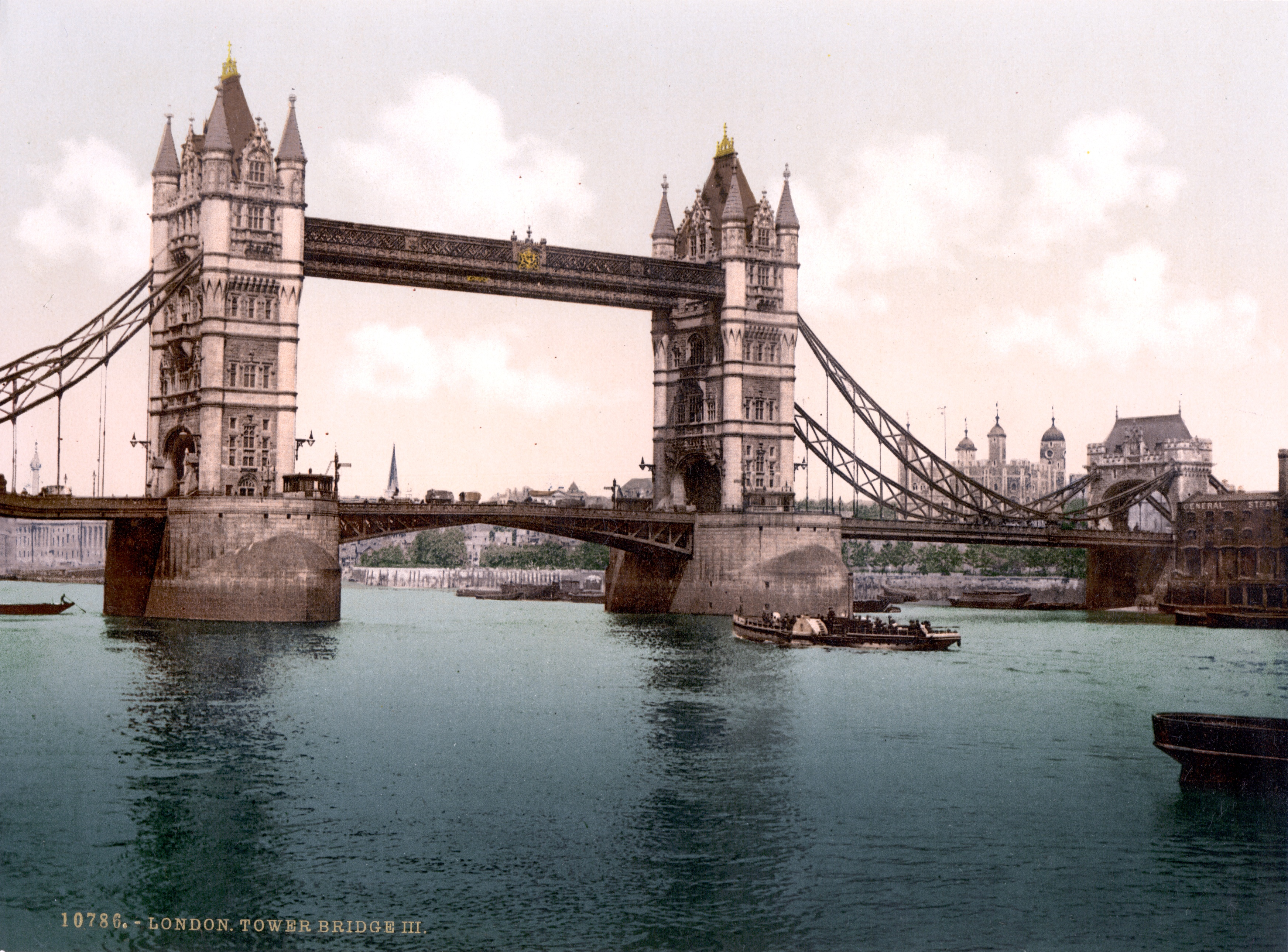 London - The Tower Bridge - not raised